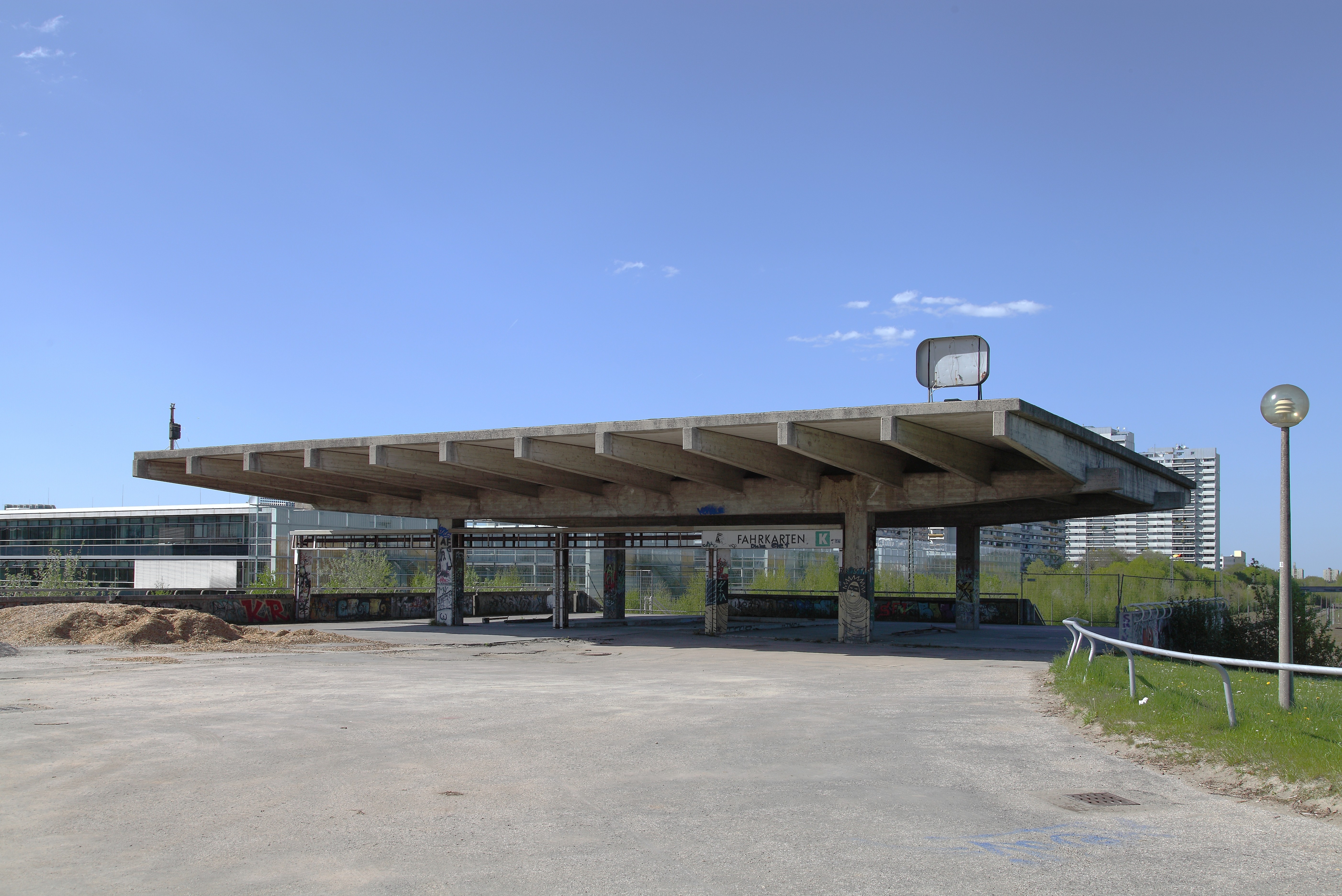 Abandoned railway station next to the Olympic stadium, Munich, Germany